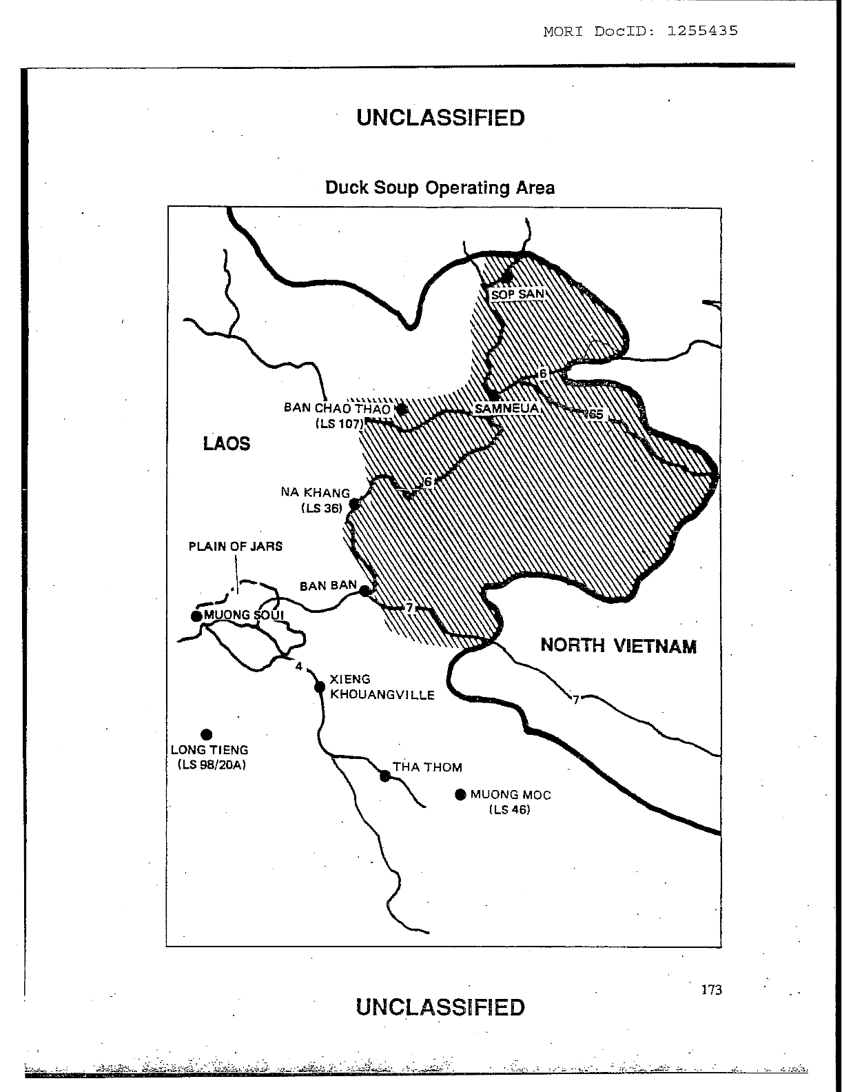 Unclassified map of Duck Soup, a plan "considered during mid-1965 to use Air America to intercept North Vietnamese aircraft dropping supplies into northeastern Laos."